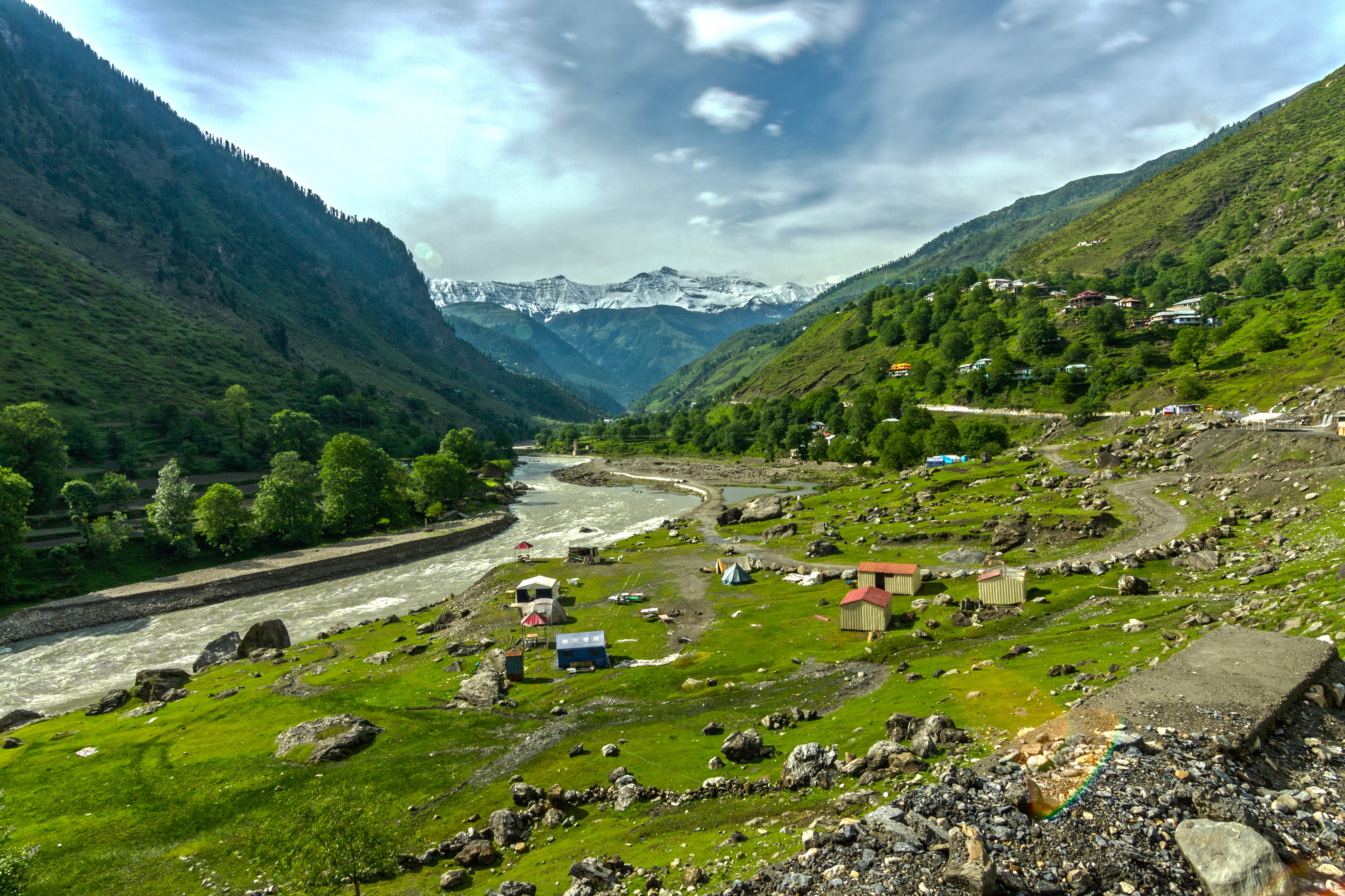 Kaghan valley Me and My Cousins went to Kaghan Valley North Pakistan to spend few days of Summer...